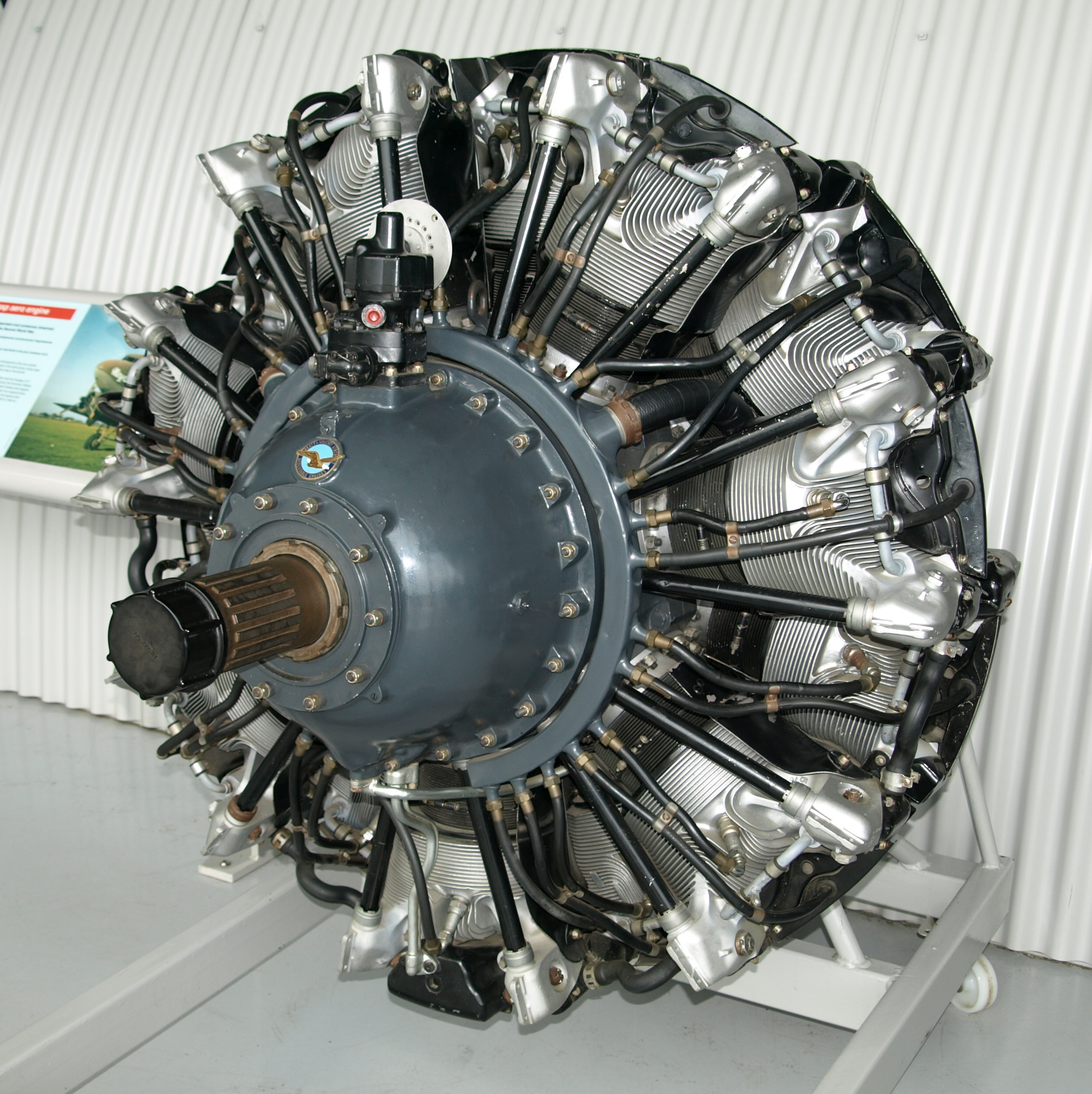 Pratt & Whitney R-1830 radial aero engine on display at the Imperial War Museum Duxford